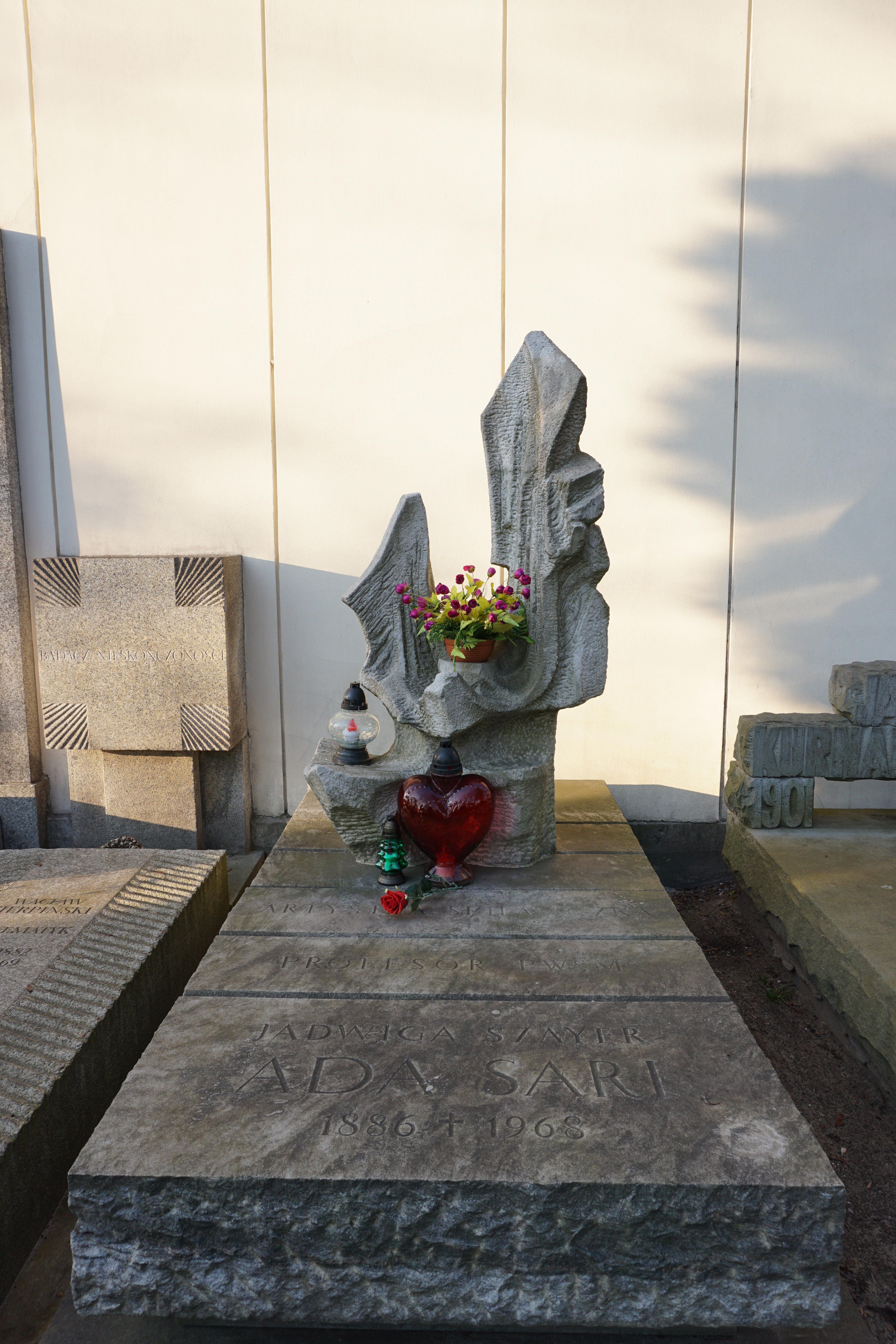 The grave of Ada Sari at the Powązki Cemetery (Avenue of Deserved, grave 154)